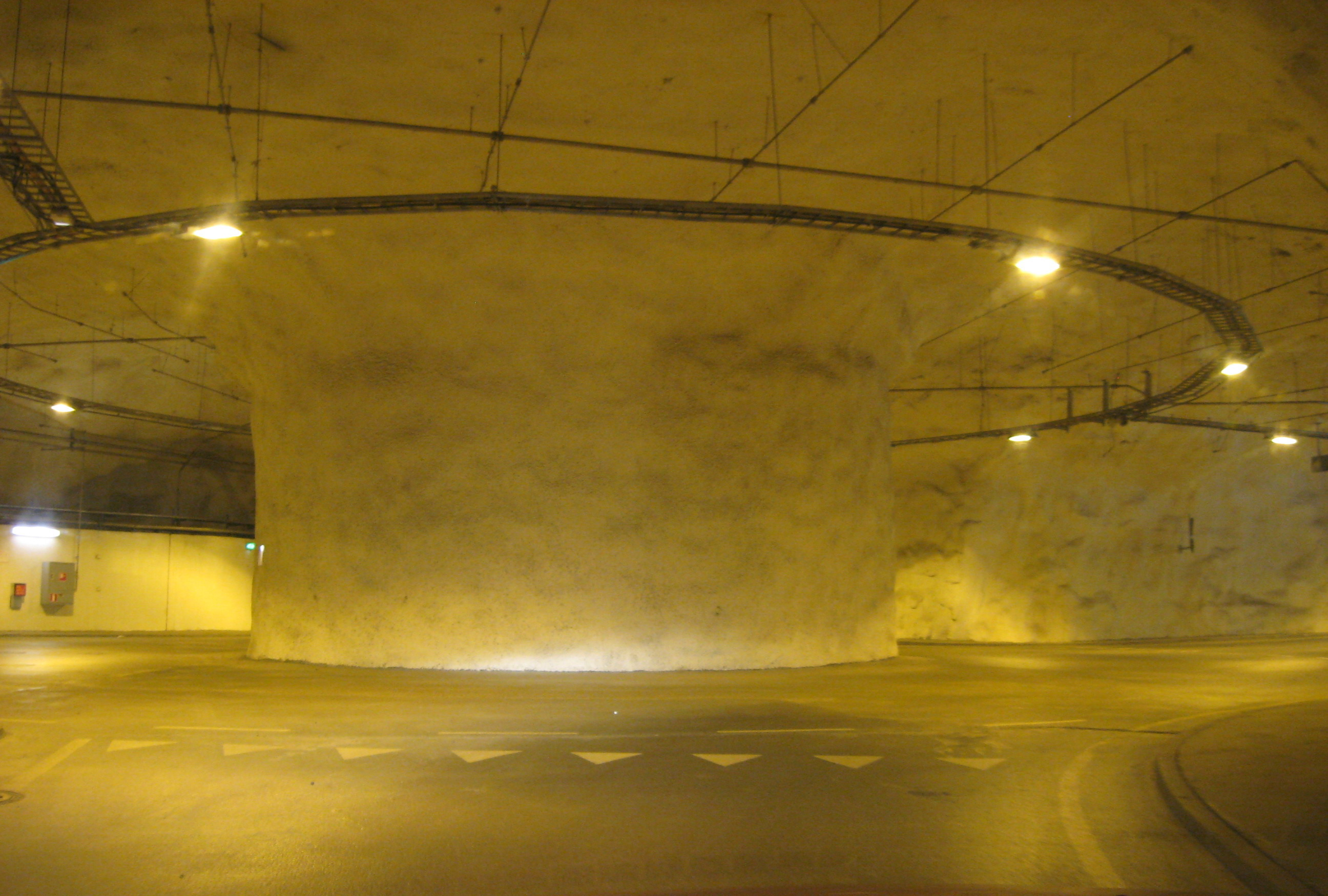 An underground roundabout, Helsinki, Finland